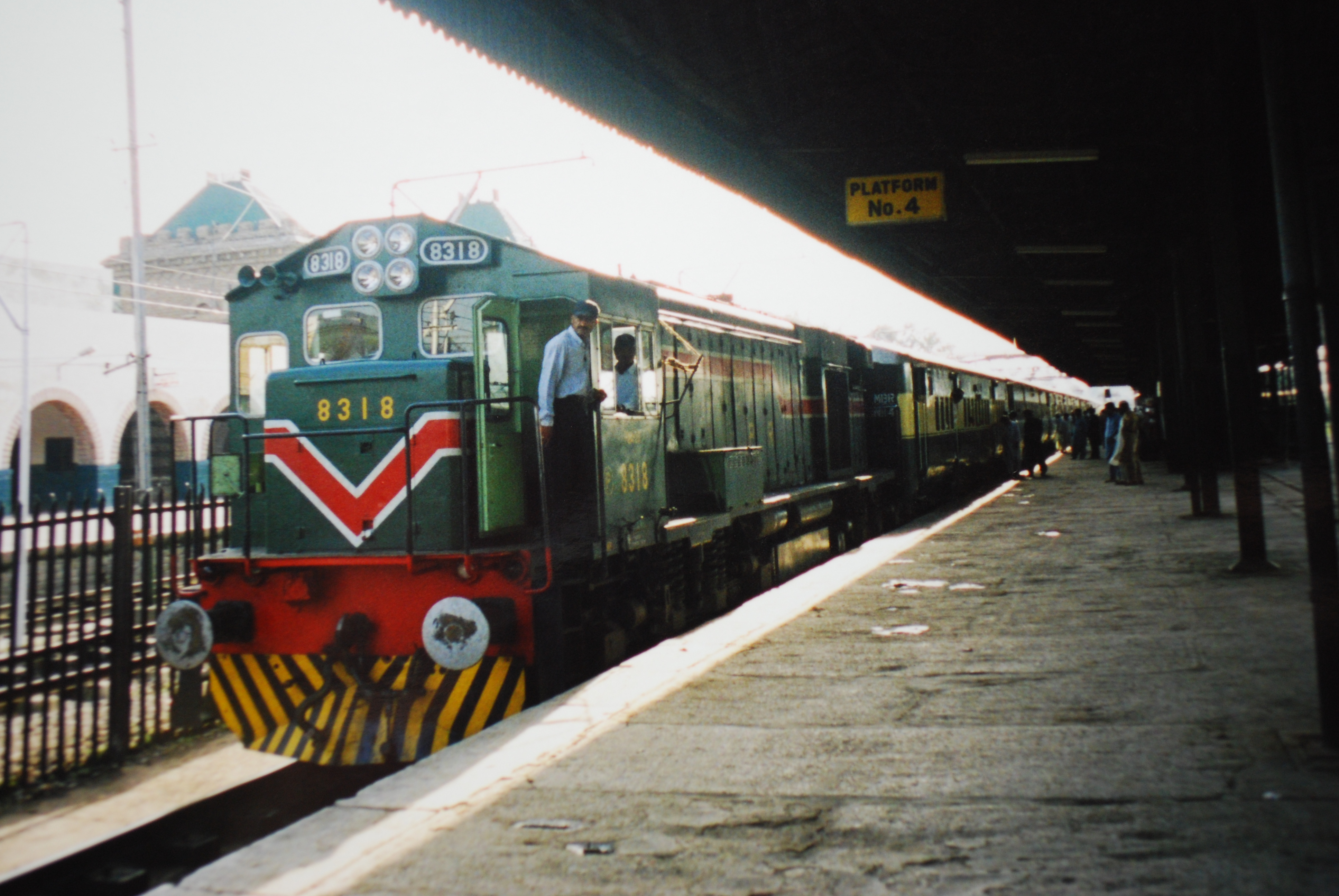 Mehar Exp. for Multan from Rawalpindi,2001,Rawalpindi Railway Station,Pakistan railways,Pakistan